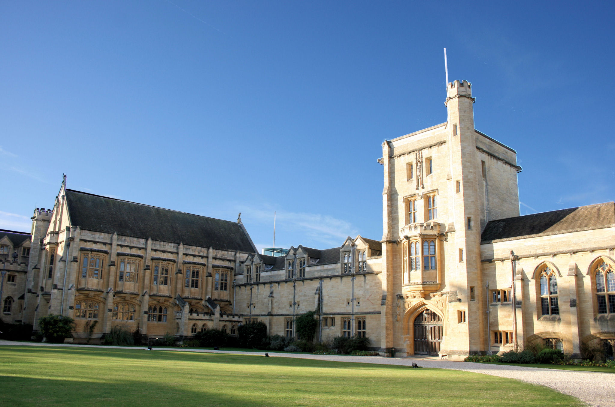 HDR Shot of Mansfield College